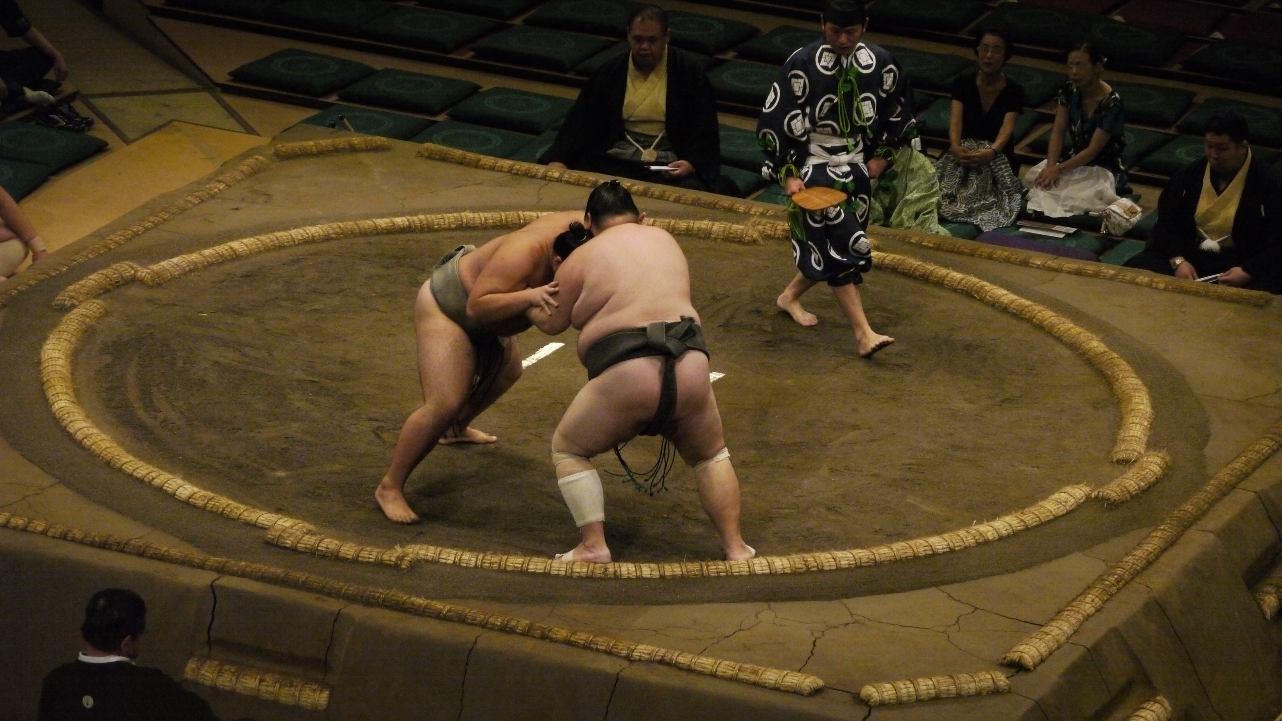 A match (probably) for Jonidan on the day 7 of 2011 September Grand Sumo Tournament.